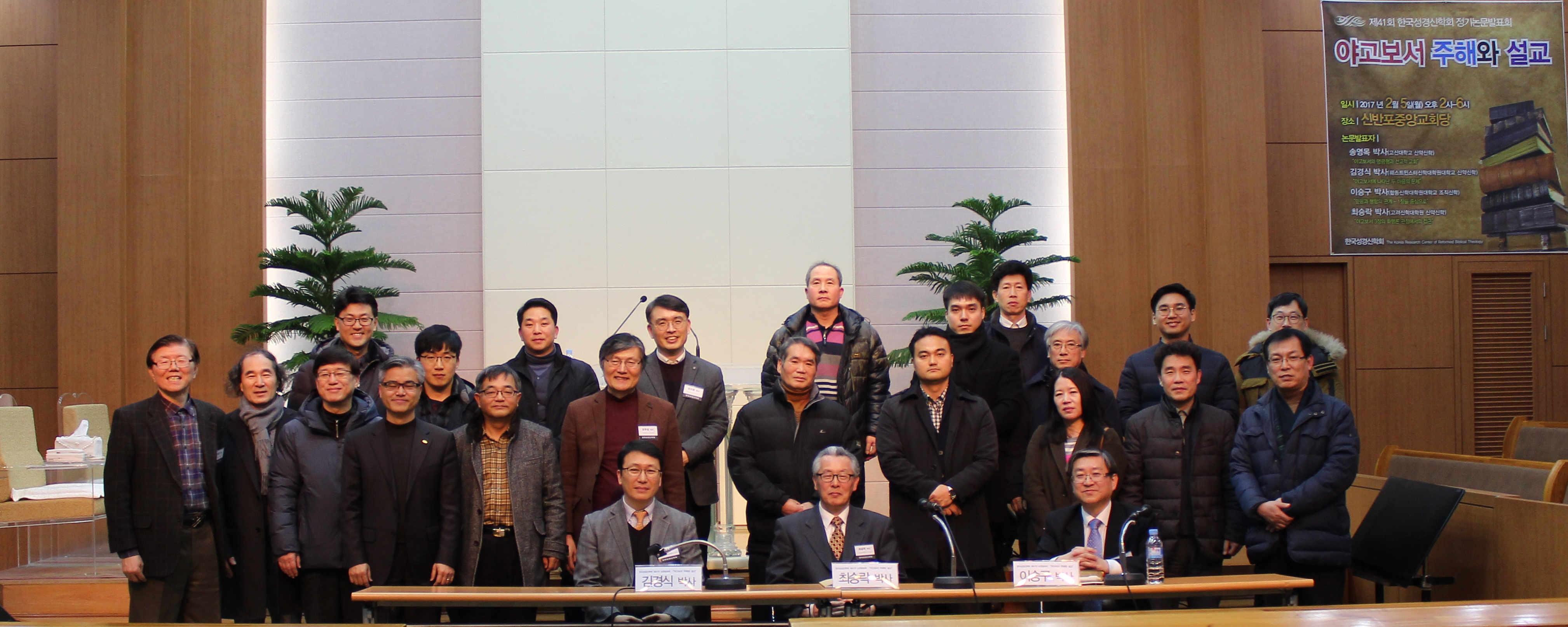 Korea Biblical Theology Soeciety, Shinbanpochungang Church, 5th Feb. 2018